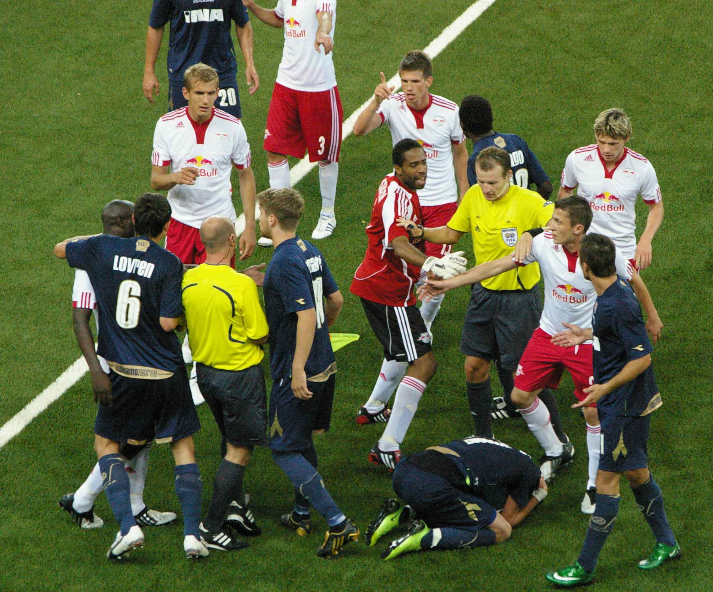 Champions-League Qualifier 3rd round